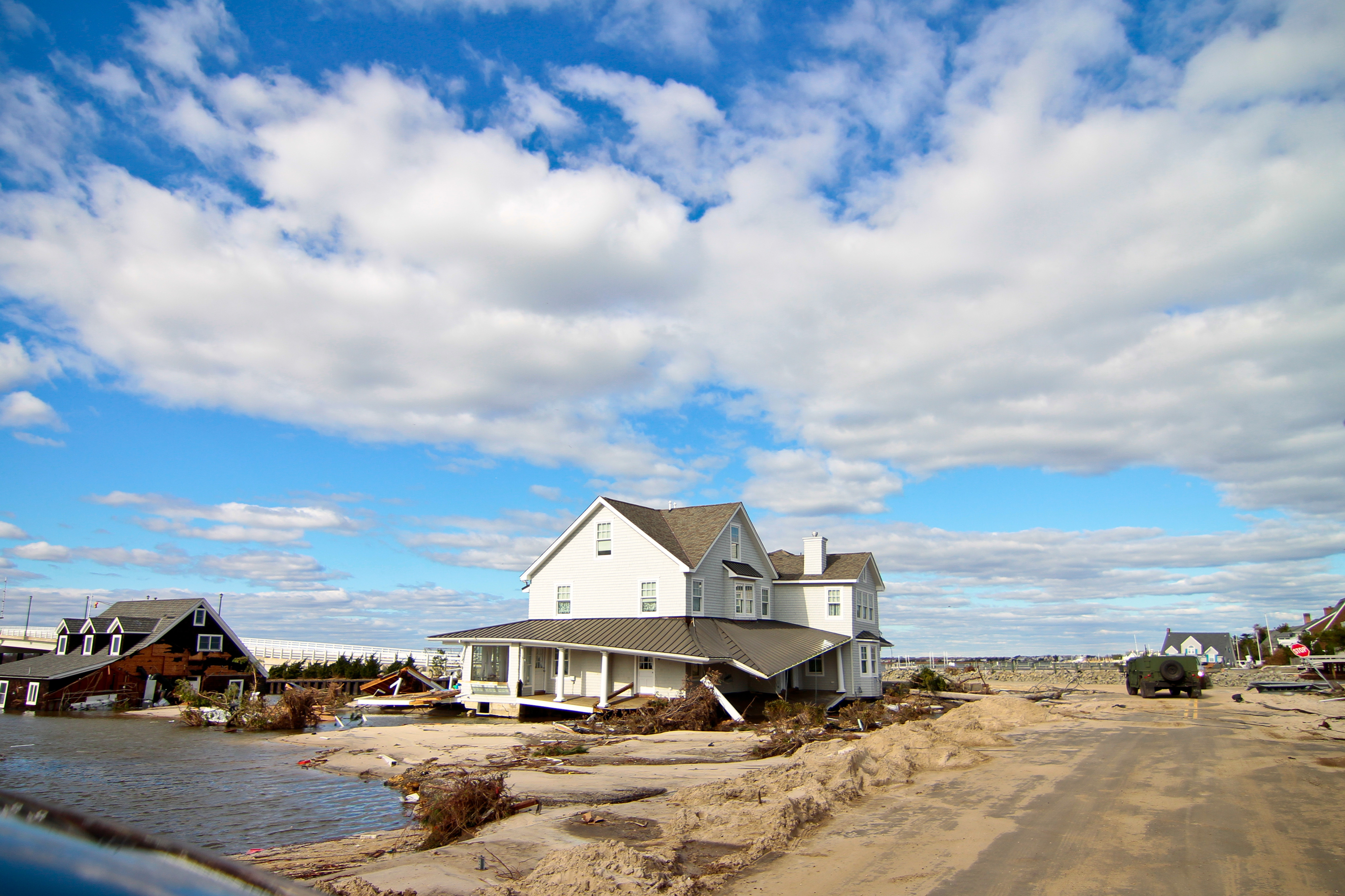 A New Jersey Air National Guard HUMMWV from the 177th Fighter Wing, New Jersey Air National Guard patrols the beach areas of Brick Township, N.J. on Nov 3. The 177th Fighter Wing Airmen are assisting local law enforcement in keeping the island safe. New Jersey Air National Guard photo by Tech. Sgt. Matt Hecht